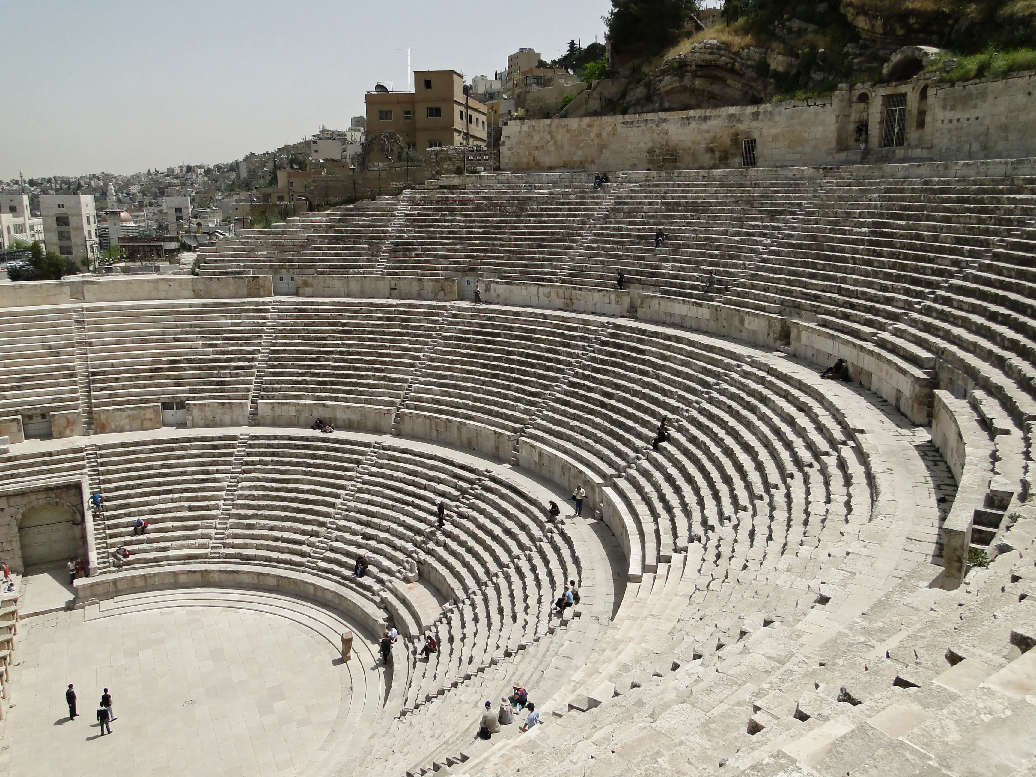 East section of the Roman theater of Amman, Jordan